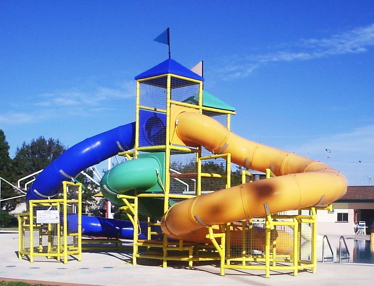 Largo Rec Center, Largo, Florida. Waterslide at aquatic center.